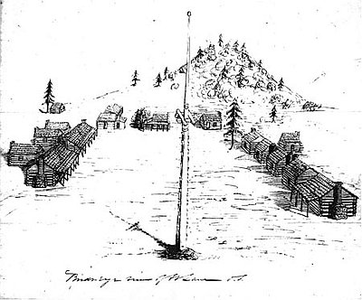 Historic sketch of Fort Lane, Oregon, at the time of its construction by the post commander. The fort site was listed on the U.S. National Register of Historic Places in 1988, and came into the custody of the Oregon Parks and Recreation Department in 2008.